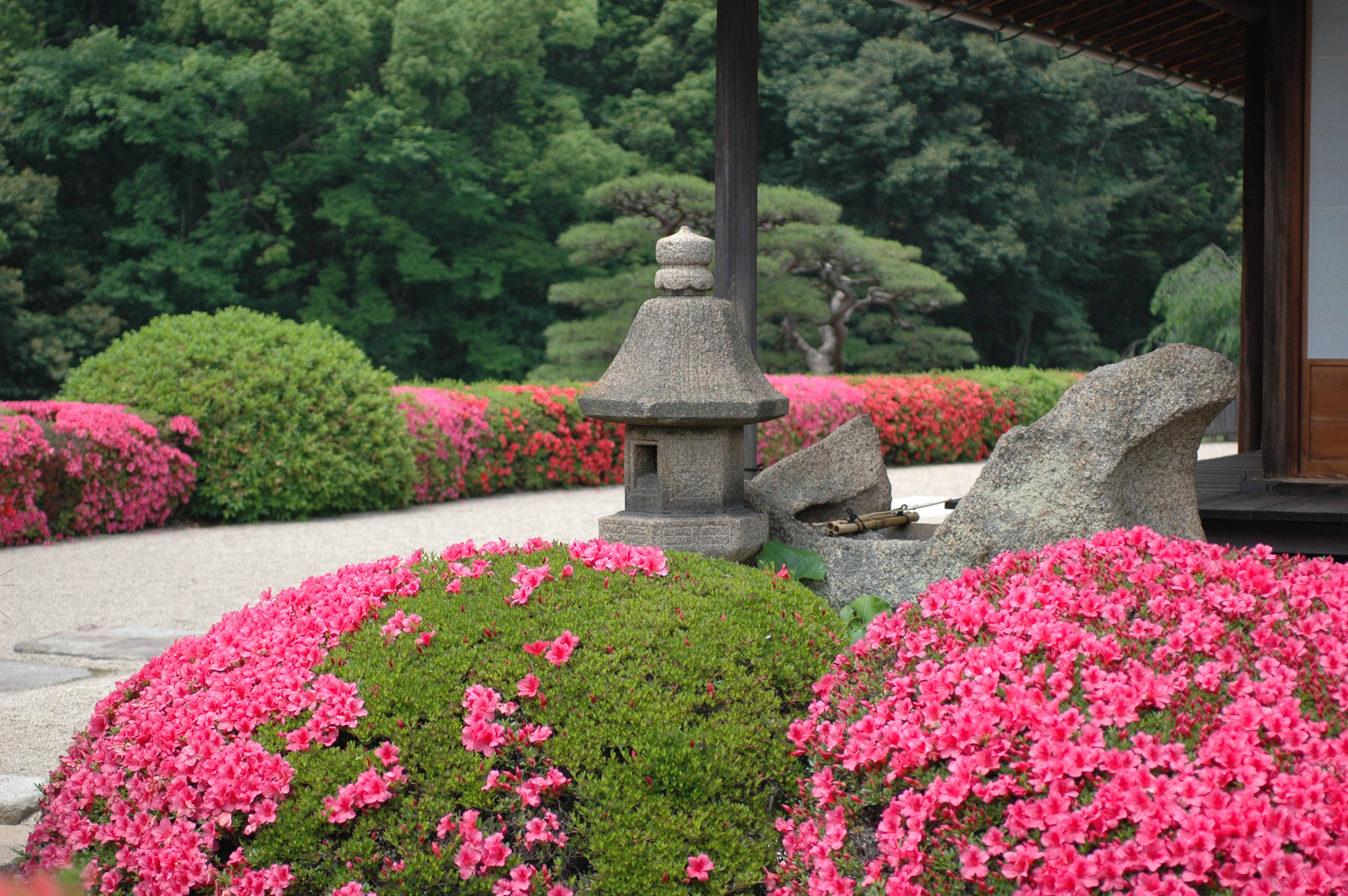 front of Enyotei